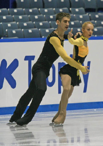 Stacey KEMP and David KING (GBR) at the NHK 2008